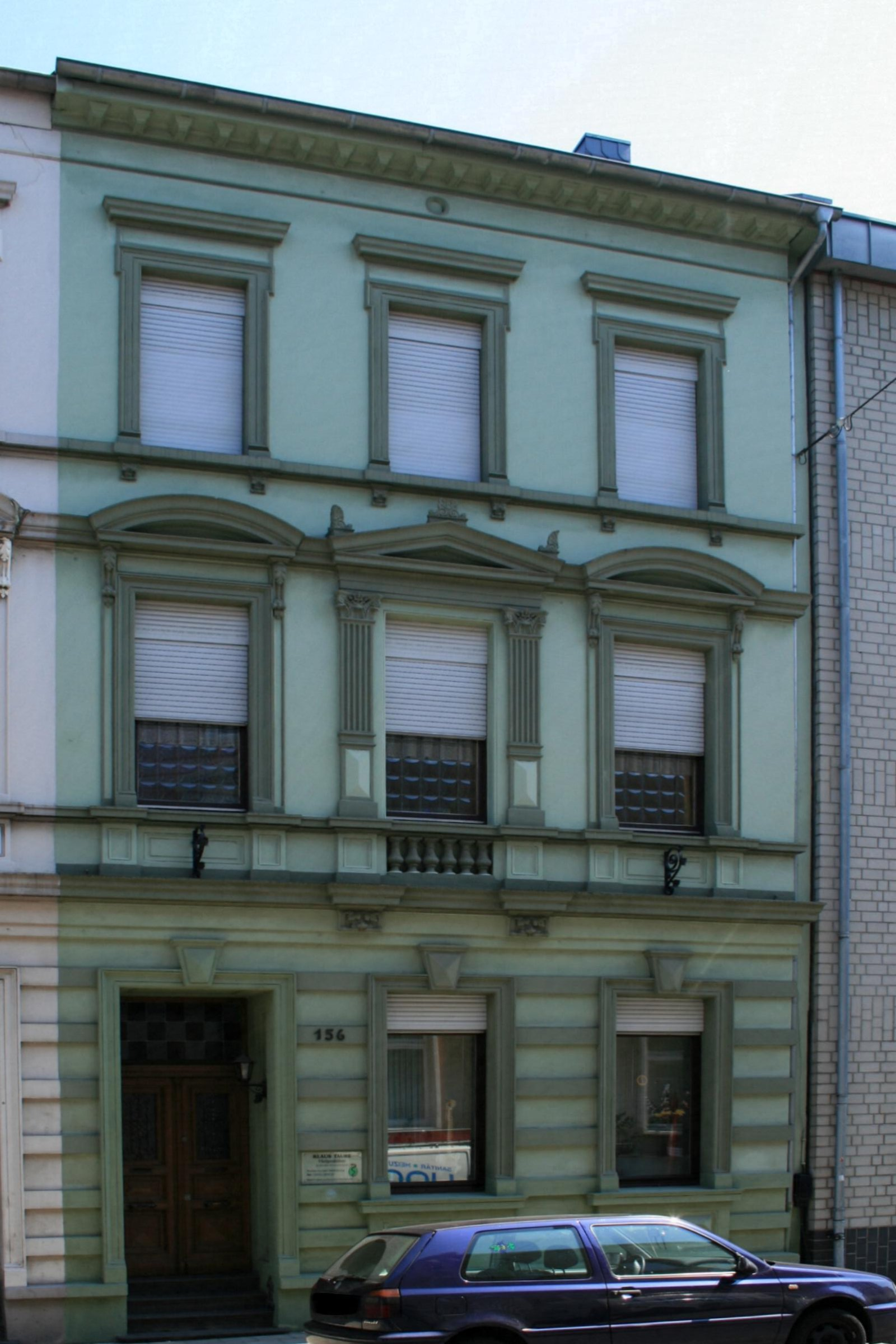 Cultural heritage monument No. R 065 in Mönchengladbach